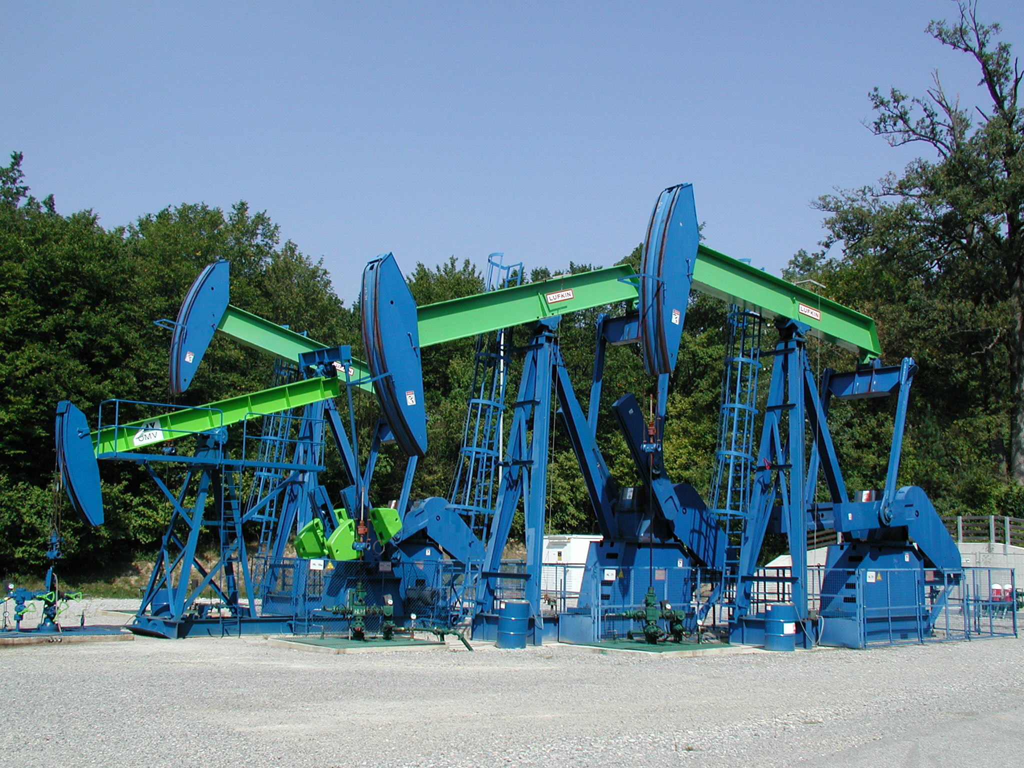 Pumpjacks at the Hochleithen oil field northeast of Vienna, Austria